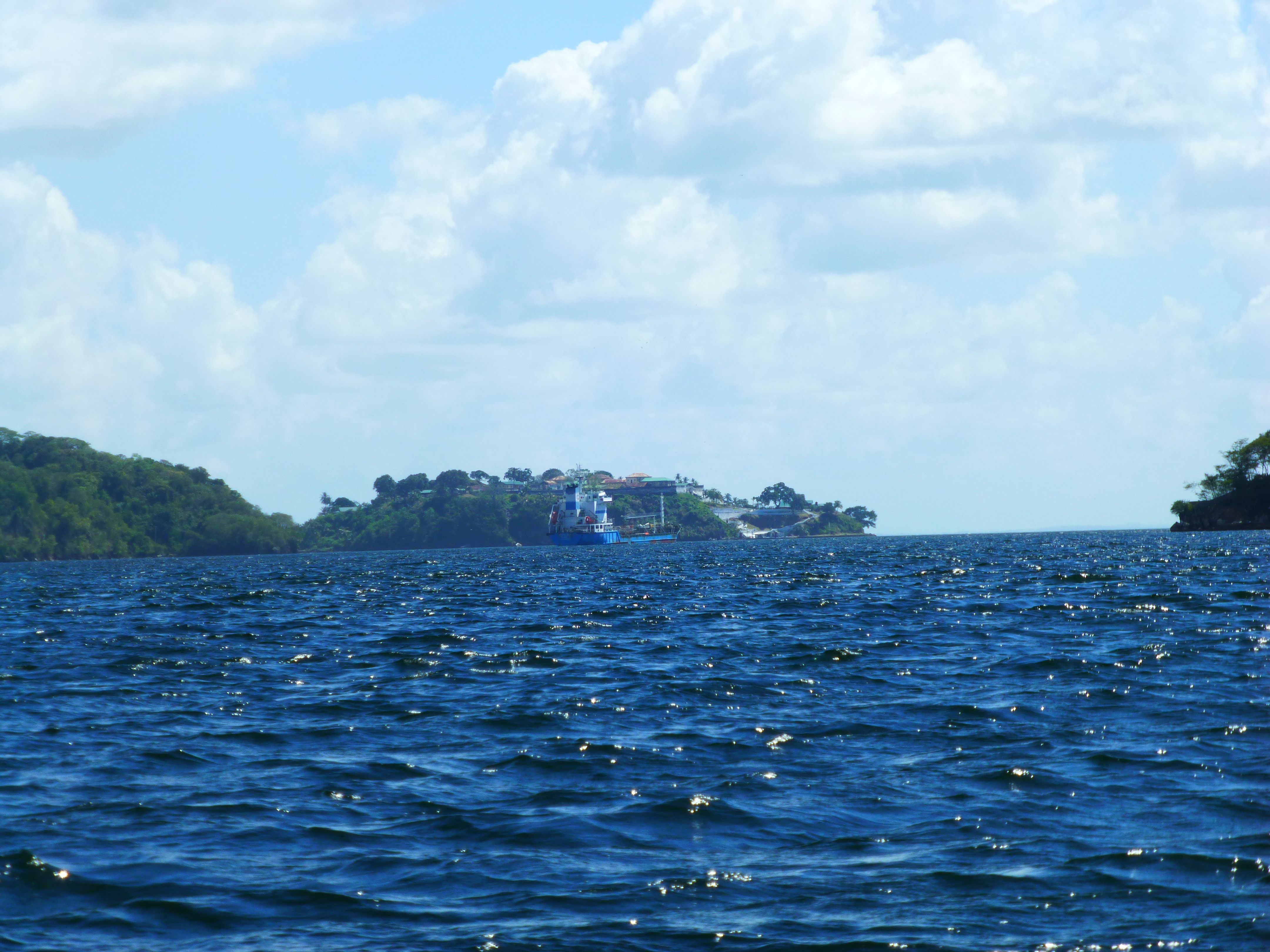 Carrera Island, Chaguaramas, Diego Martin, Trinidad and Tobago.